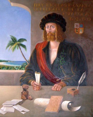 Portrait of viceroy Nicolás de Ovando